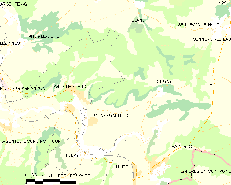 Map of French municipality Chassignelles